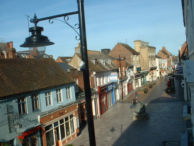 London Road, Basingstoke